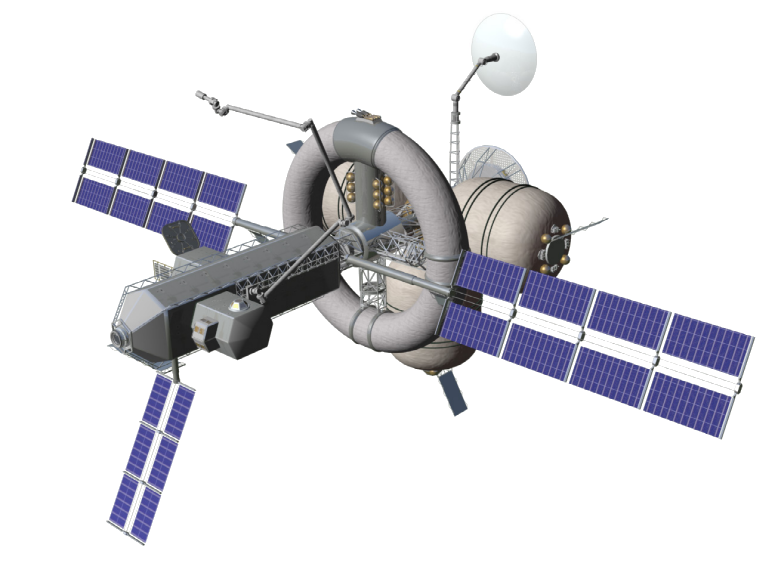 This is a global view of a multi mission space exploration vehicle designed by NASA's Technology Applications Assessment Team. The spacecraft is called Nautilus-X.